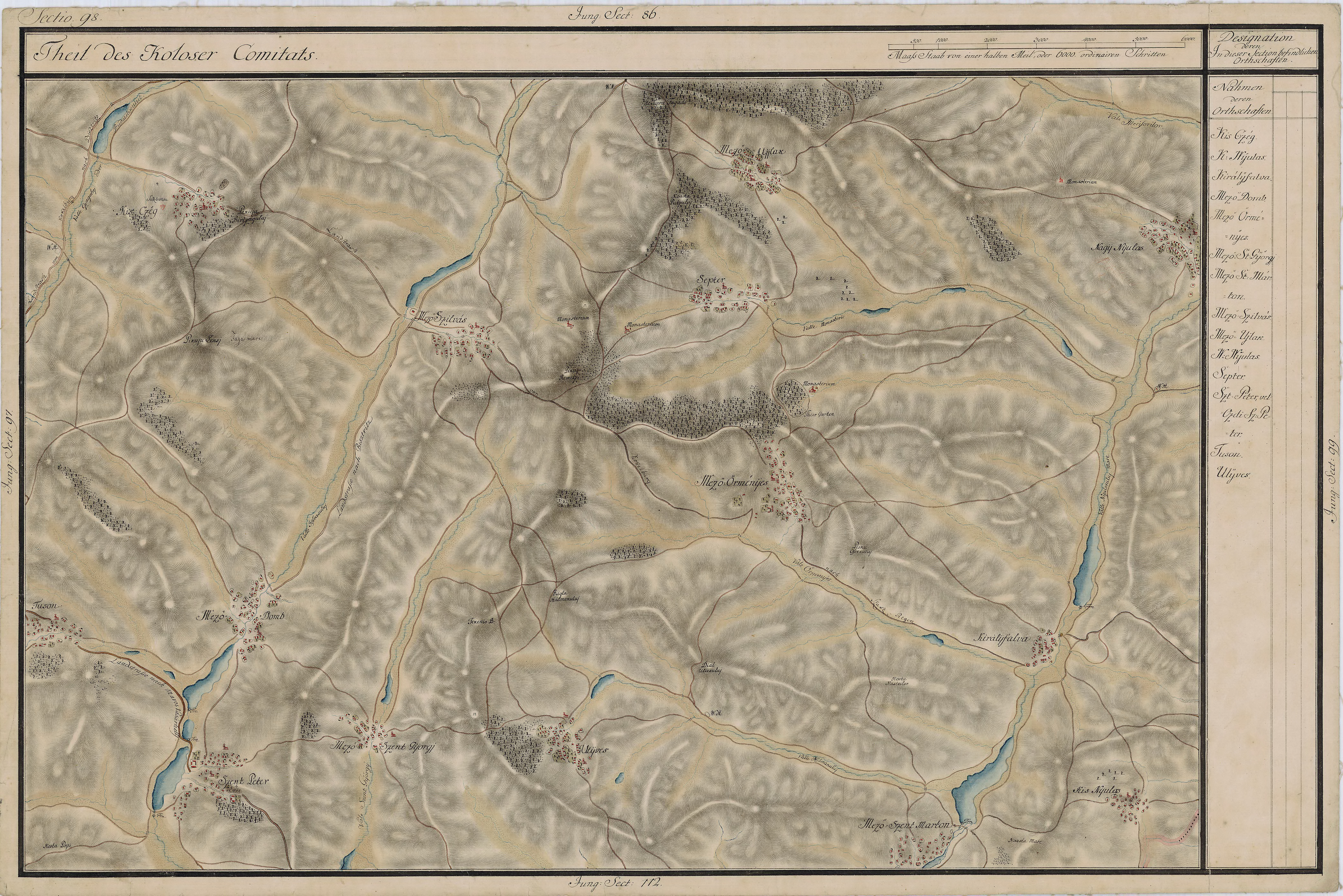 Grand Duchy of Transylvania, 1769-1773. Josephinische Landaufnahme pg.098